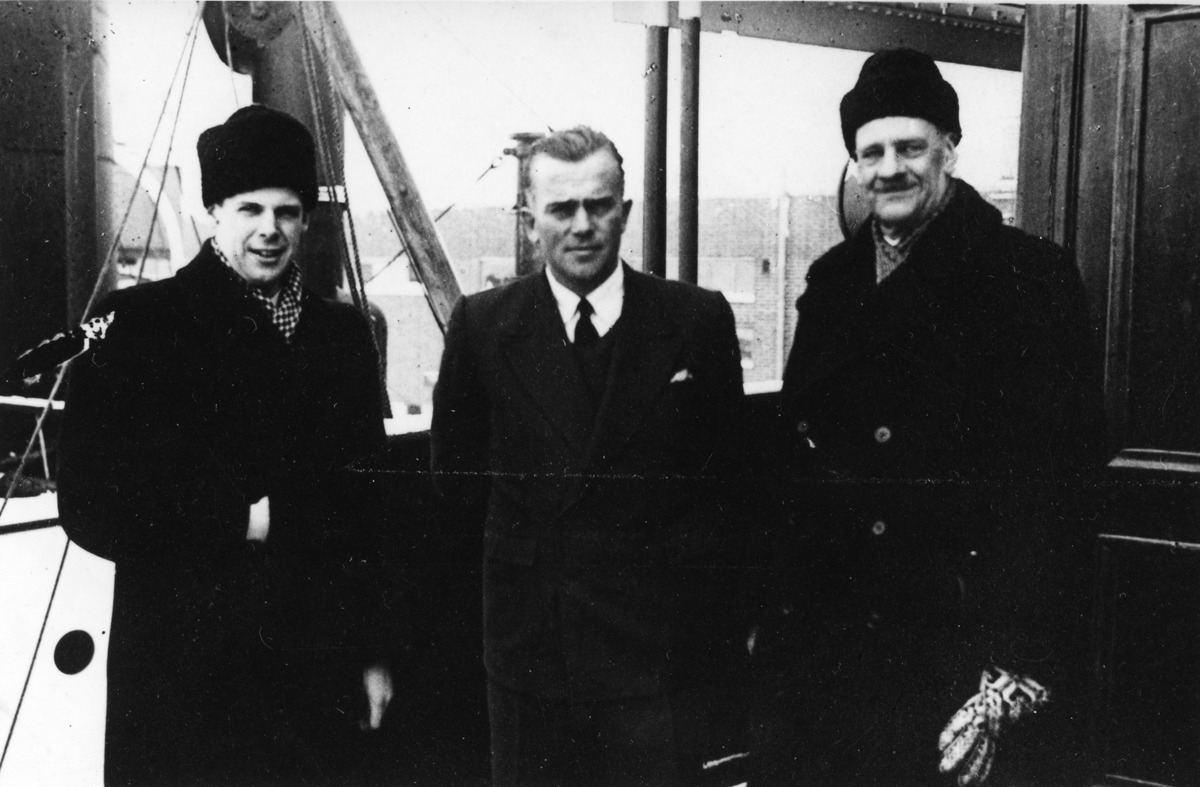 Photograph of captain Gunnar Mötler, manager Henrik Paulig and director Eduard Paulig on board S/S Herakles. The ship brought coffee from South America to Finland for the first time after World War II.